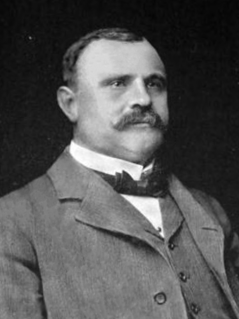 Harry Lee Maynard (1861-06-08 - 1922-10-23), U.S. Representative from Virginia (1901-1911).